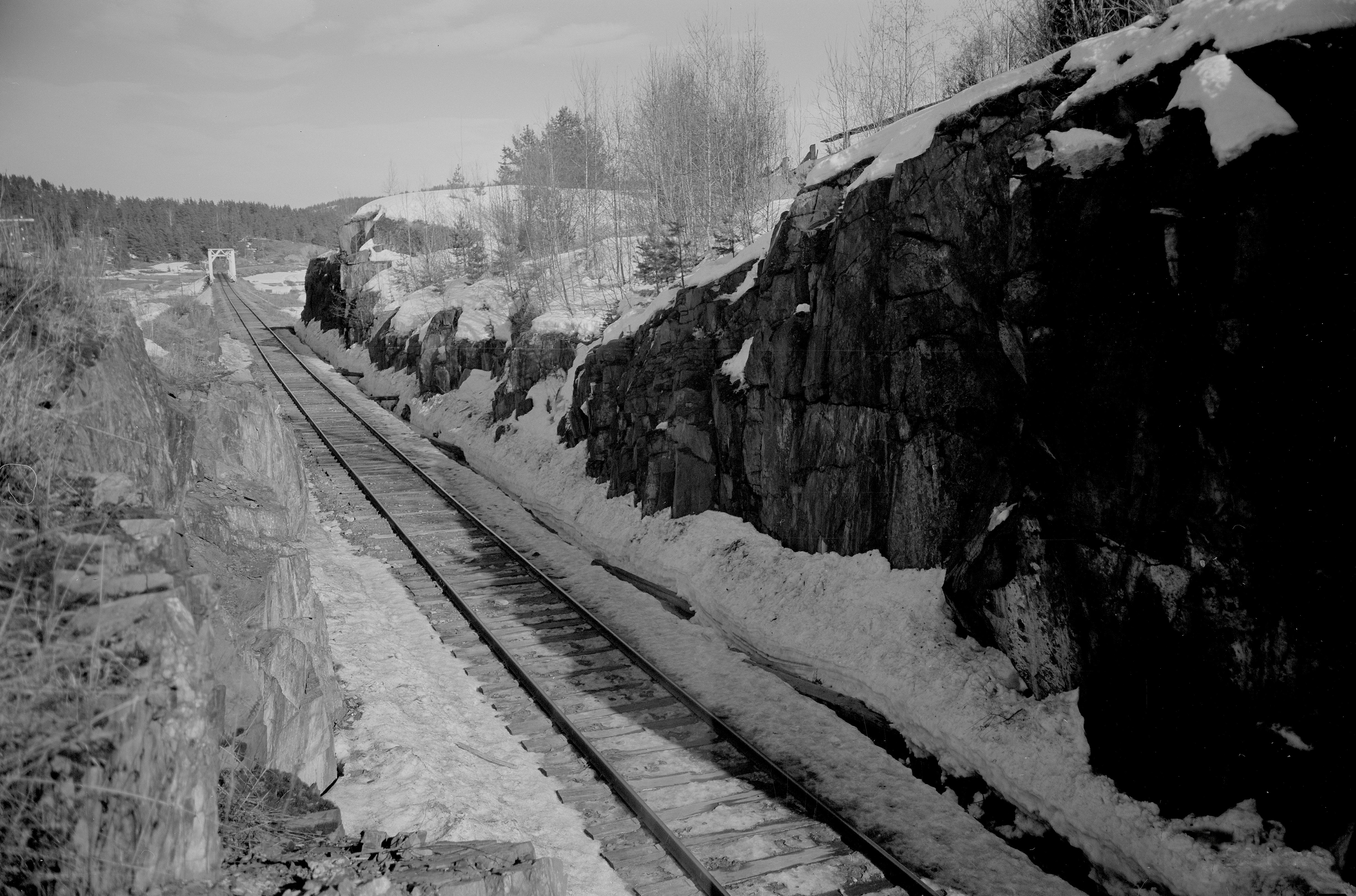 Sumerianjoen rautatieleikkaus rautatiesillalle päin paikassa, missä rautatietykin taisteluasemat olivat.